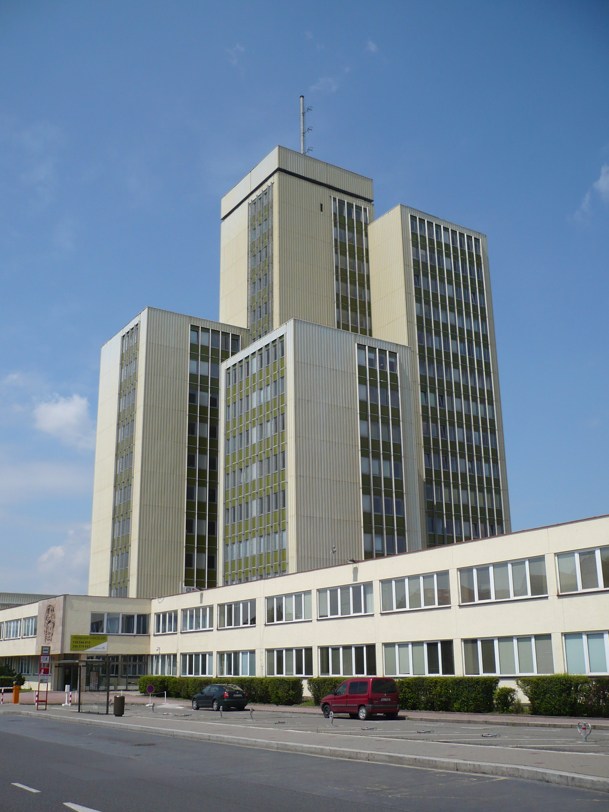 Montované stavby Praha, Zelený pruh 1560/99, Prague